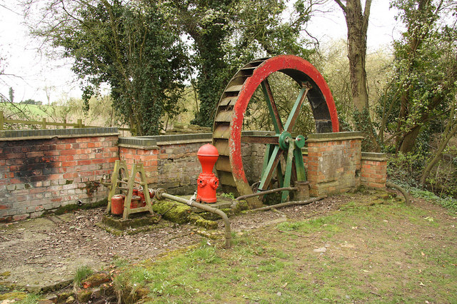 Branston Water Wheel